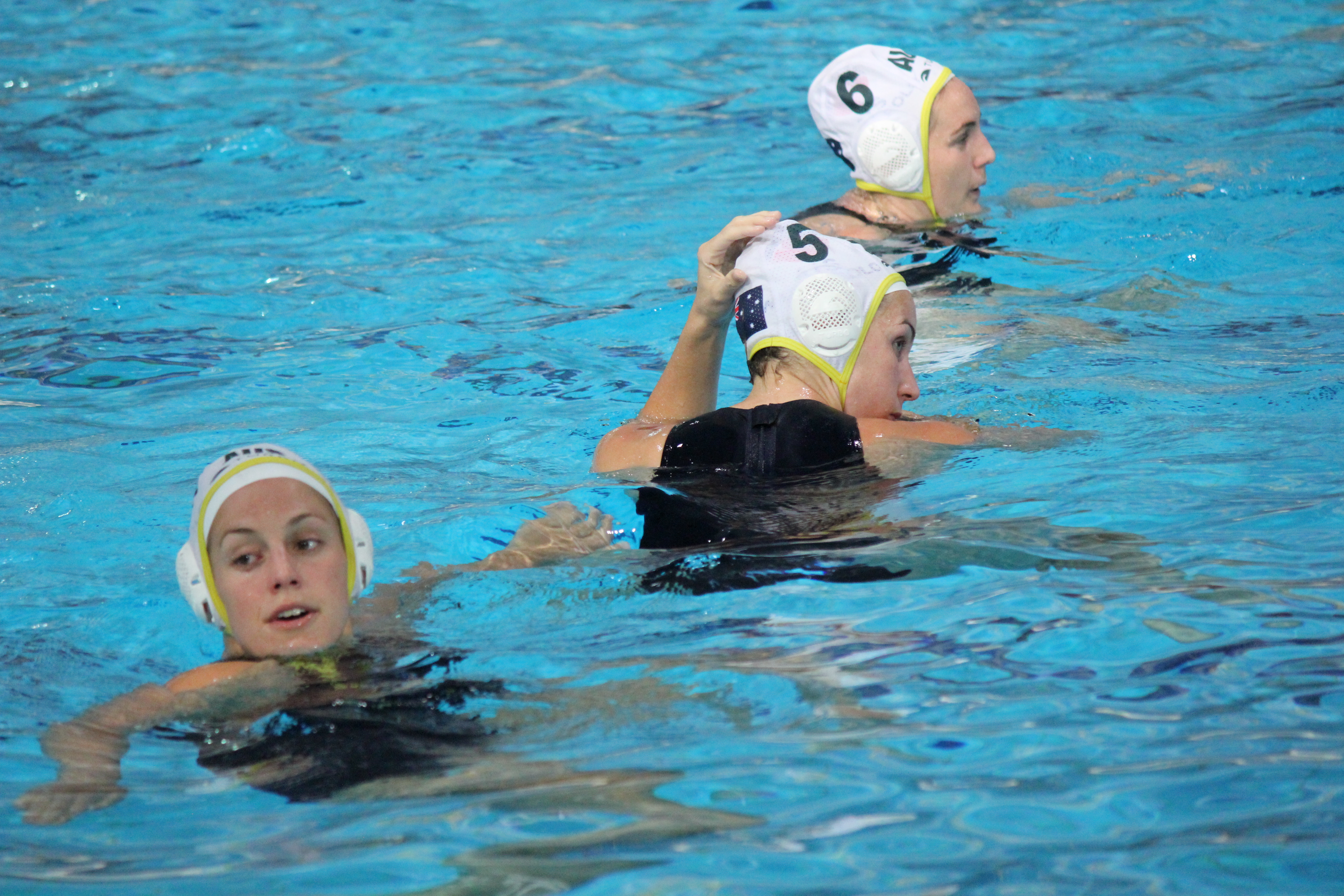 Australia player in the third test match between GBR and AUS at AIS Swimming and Aquatic Centre on 25 February 2012. Bottom left is Bronwen Knox.